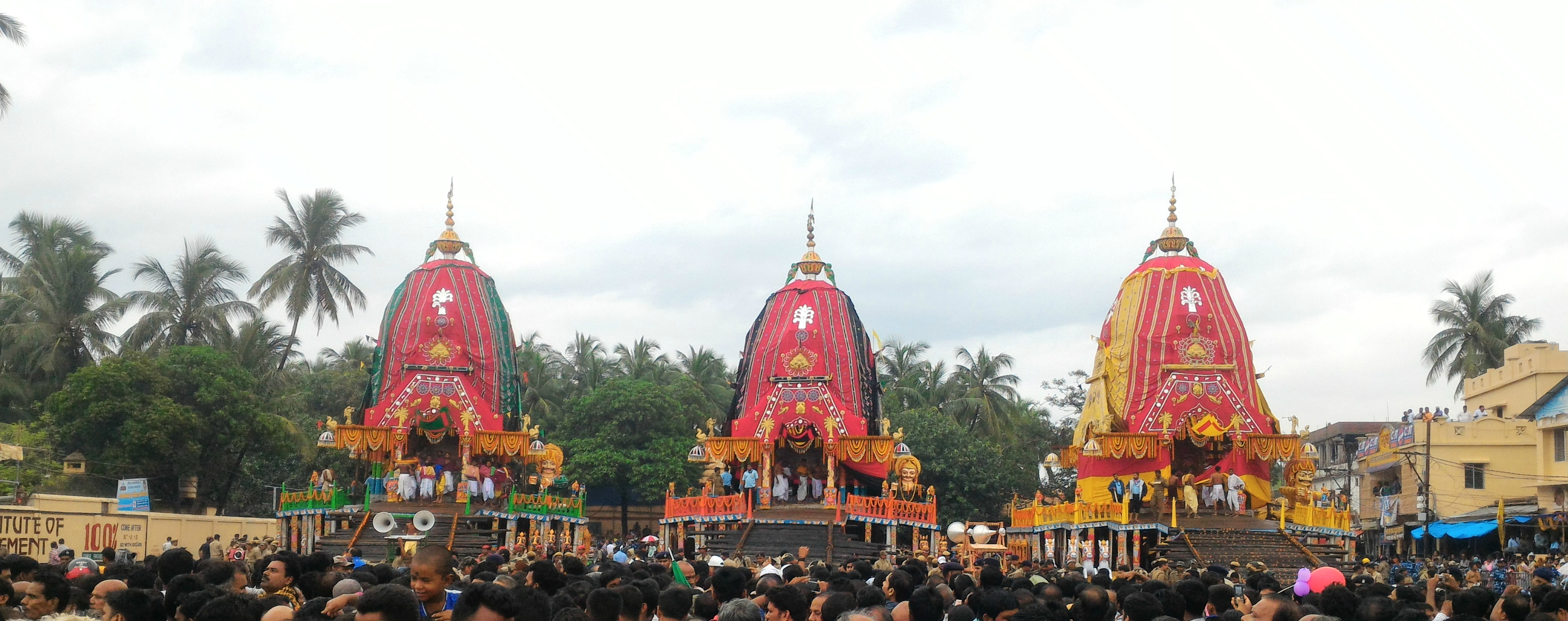 The Chariots in front of the Gundicha Temple, Puri before the commencement of the Bahuda Jatra, Nabakalebara 2015.